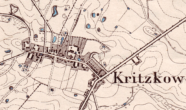 Karte